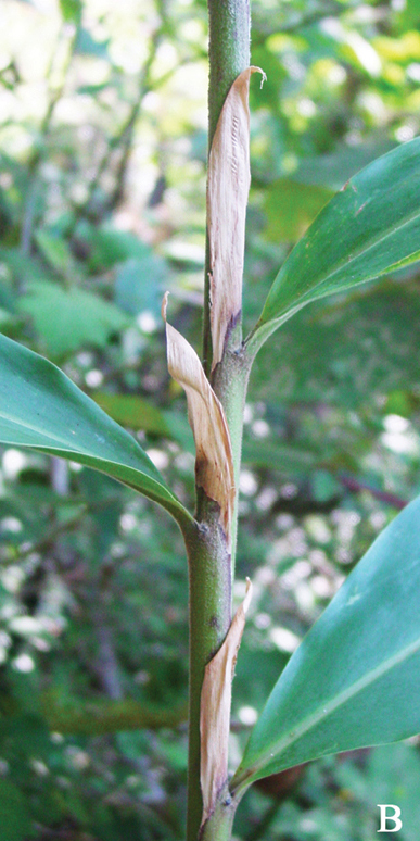 Amomum nilgiricum, ligules